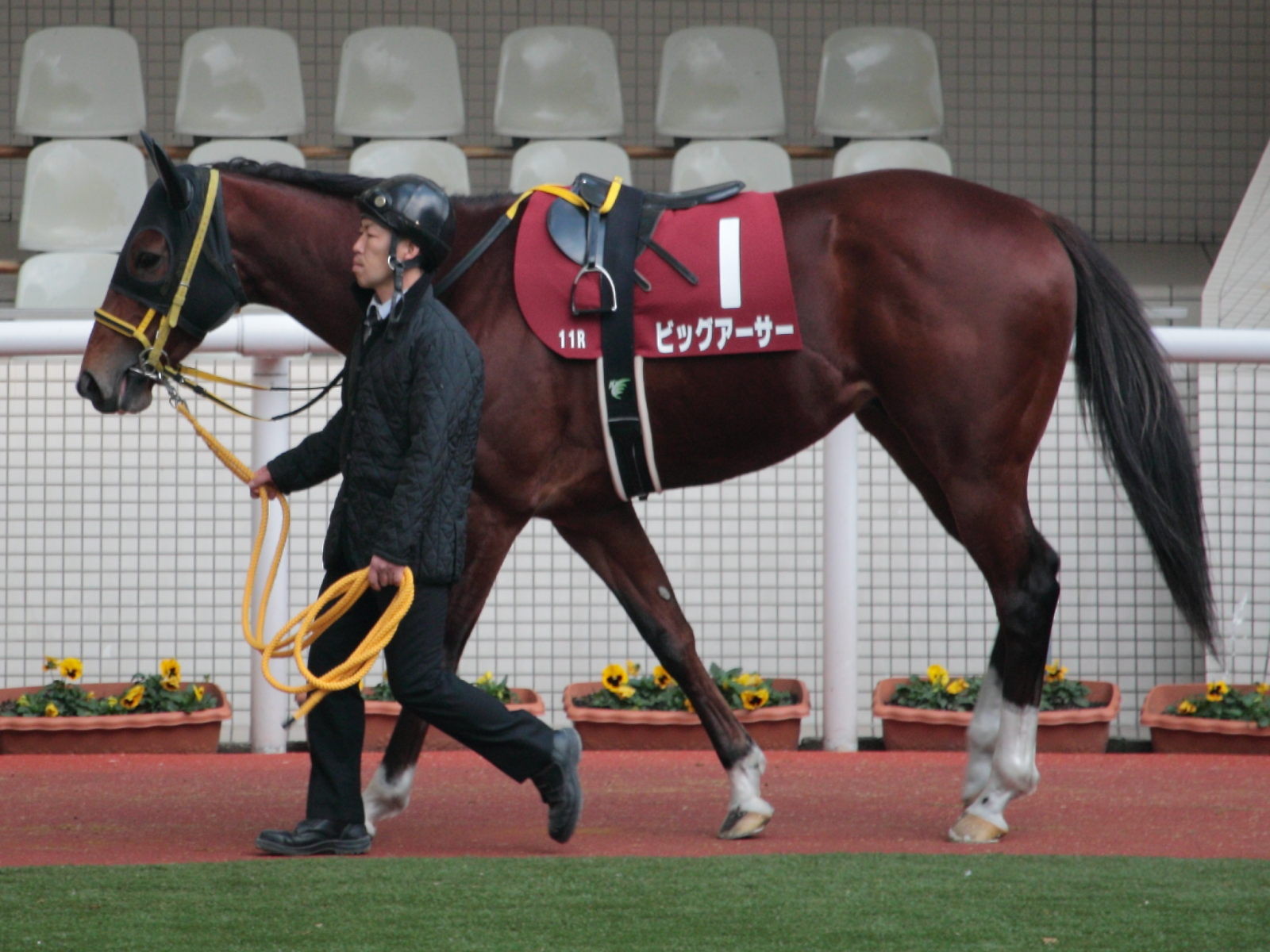 Big Arther (Racehorse of Japan).